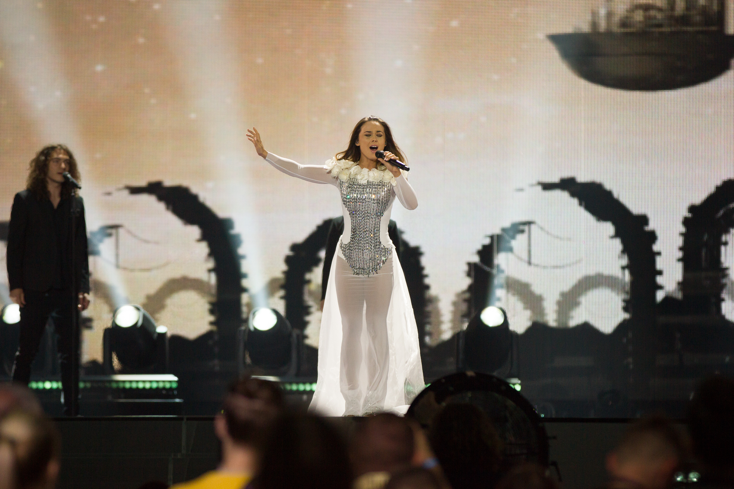 Lindita representing Albania with the song "Mall" during a rehearsal before the first semi final of the Eurovision Song Contest 2017 in Kiev.